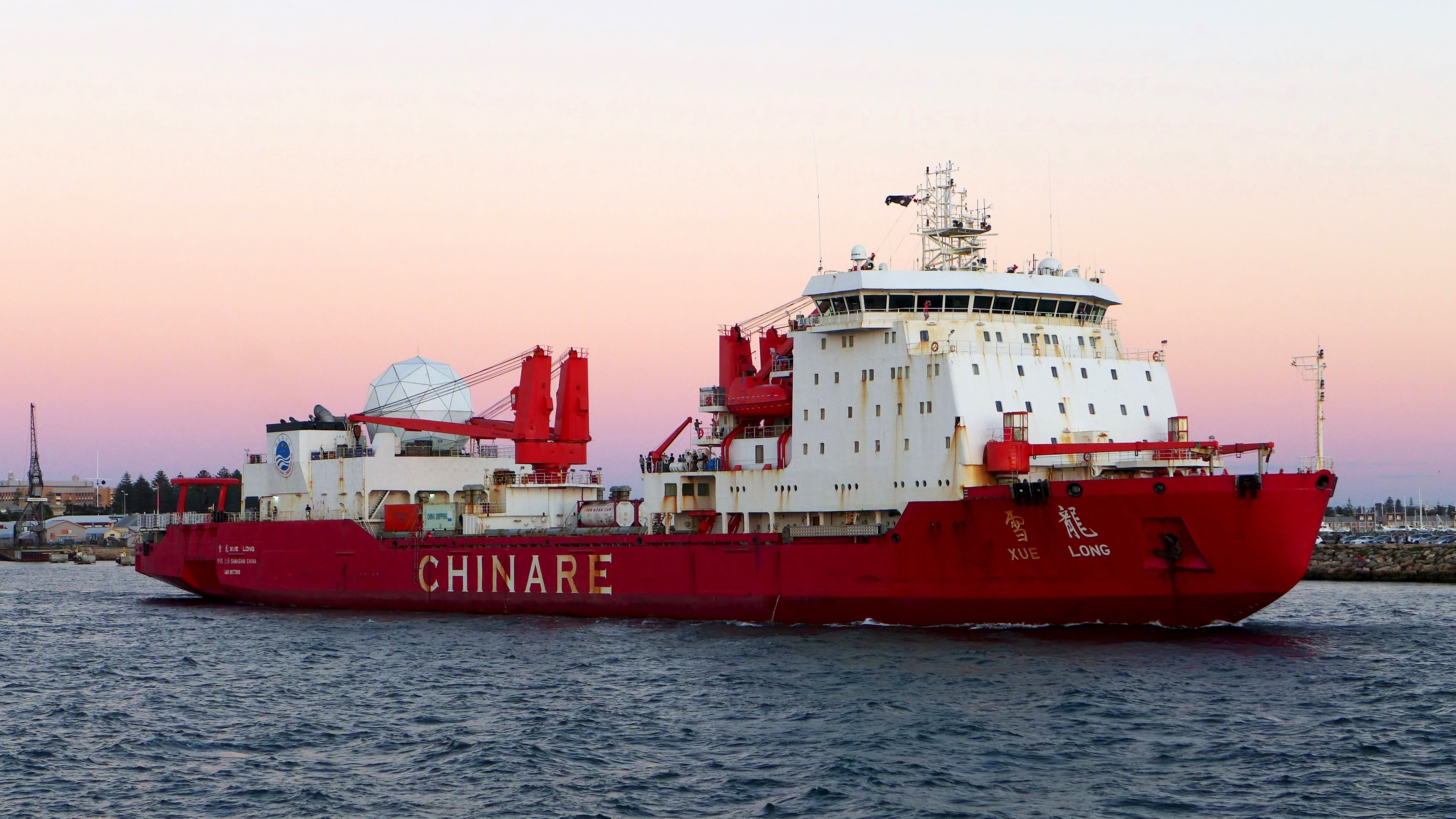 Xue Long, a Chinese icebreaker, departing from the inner harbour of the Port of Fremantle, Western Australia, on her way back to her port of registry, Shanghai, China, after a visit to Antarctica.